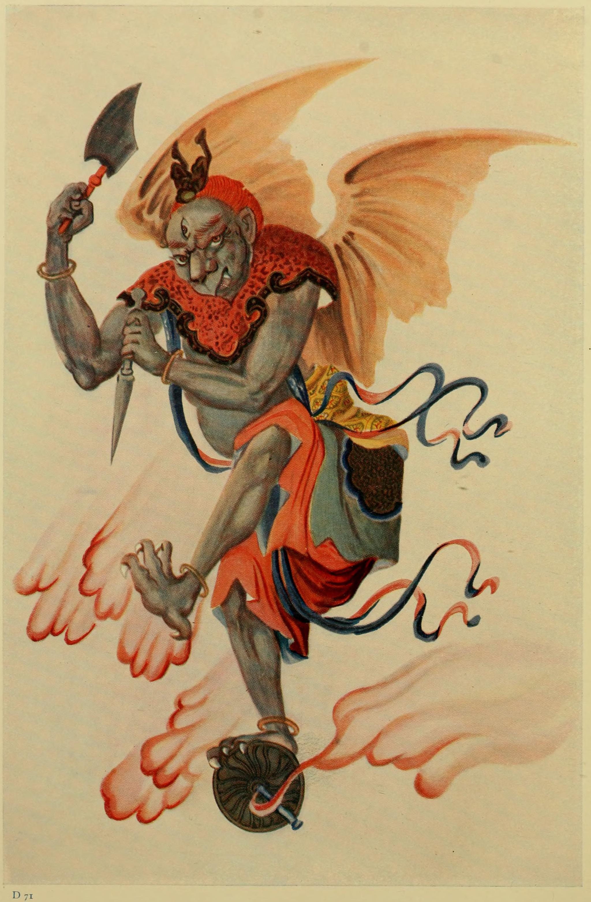 Myths of China and Japan by Donald A. Mackenzie. Published 1923 by Gresham Publishing Co. in London . Written in English. Edition Notes Series Myth and legend in literature and art The Physical Object Pagination xvi, 404 p. : Number of pages 404 ID Numbers Open Library OL14029703M Internet Archive mythsofchinajapa00mack OCLC/WorldCat 1114426, 1114426